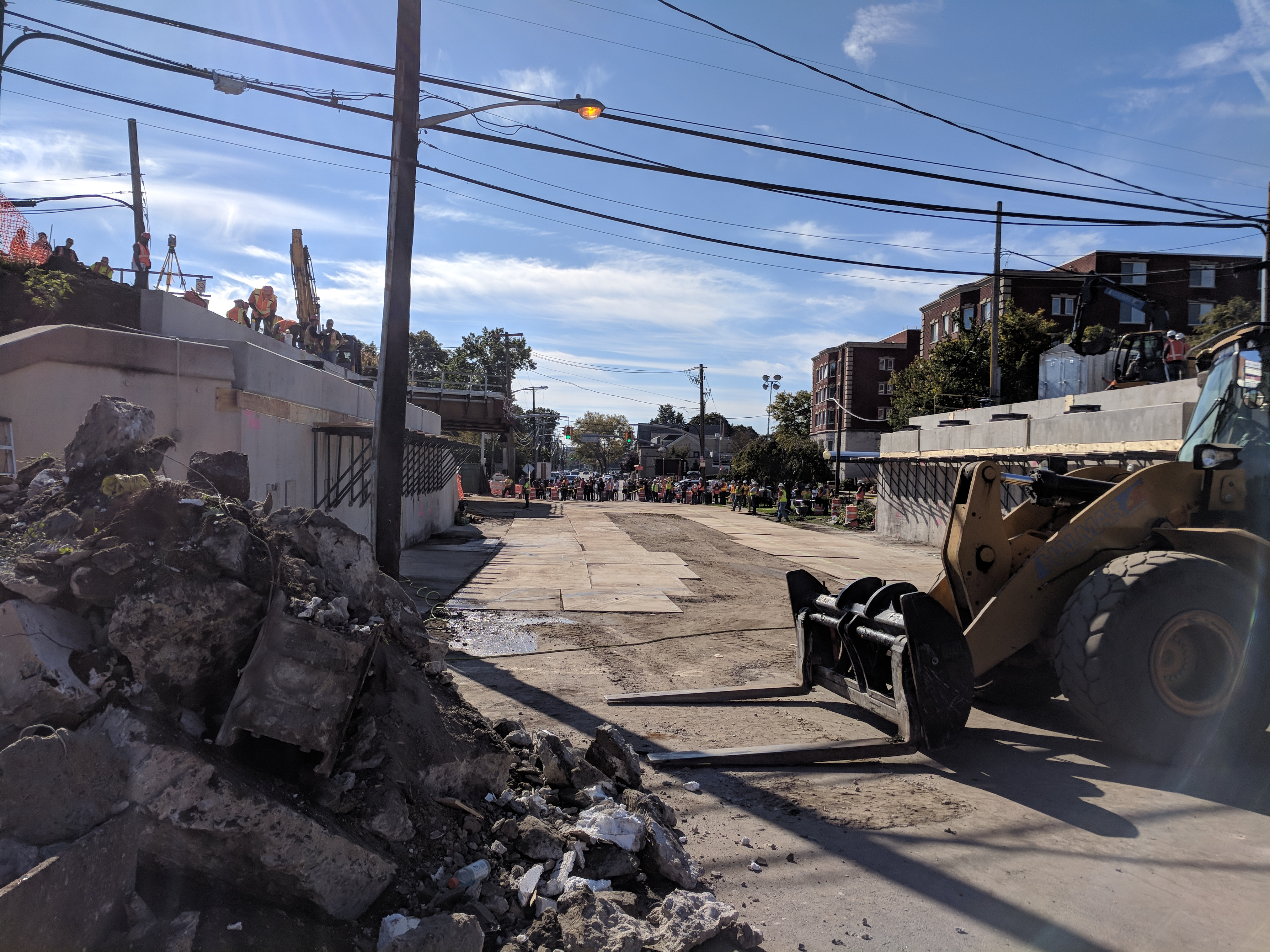 In October 21-22, 2017, the LIRR replaced the Post Avenue Bridge in Westbury – a span struck by dozens of overheight trucks in recent years resulting in train delays. Work was completed ahead of schedule, with the first regularly scheduled train passing over the new bridge at 1 a.m. The new bridge’s height clearance now allows trucks of up to 14 feet to safely pass underneath, improving LIRR system infrastructure and service reliability. The old bridge -- that hovered over Post Avenue at 11 feet 10 inches -- had been struck by trucks between five and nine times per year in each of the past six years. Train delays in both in both directions would loom as LIRR crews worked to determine its safety and structural stability before restoring train service. Photo: MTA Long Island Rail Road / Dominick Cervo